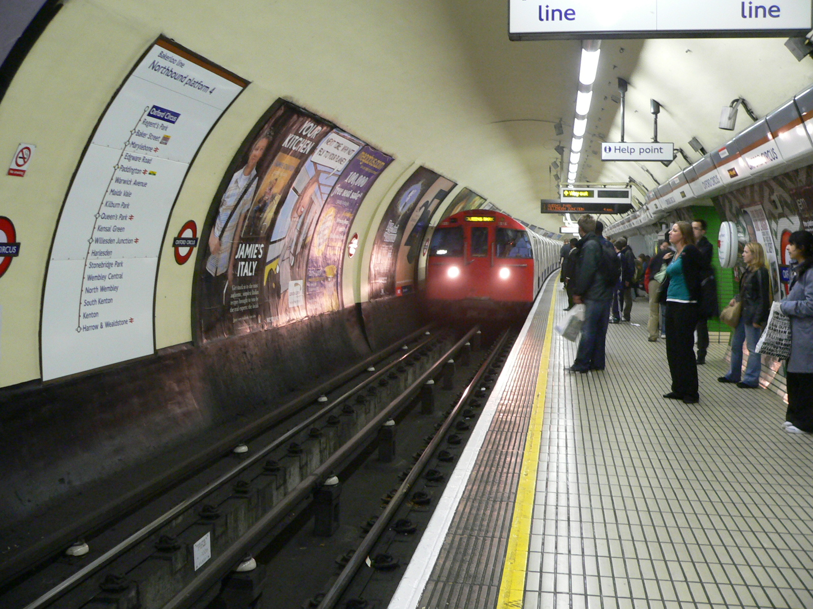 A London Underground 1972 tube stock train arrives at Oxford Circus tube station with a northbound Bakerloo Line service on 24 October 2005.